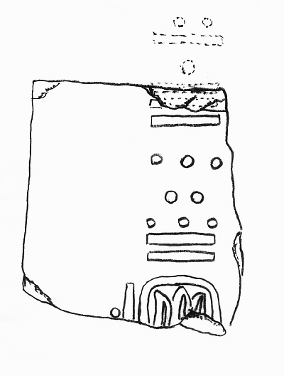 siyajkak made this drawing referred to the photo in Longena,Maria 1998 and the figure in Coe 1976